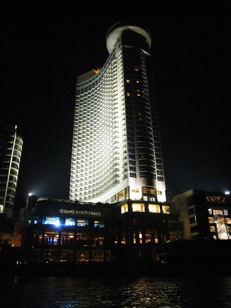 Grand Hyatt Cairo in Garden City district, view from Nile.